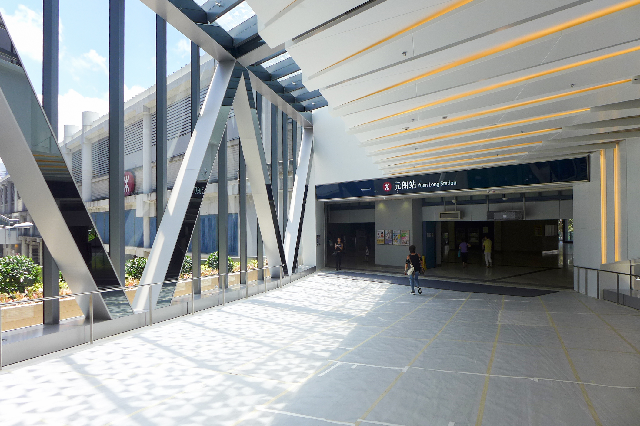 YOHO Mall Access to Yuen Long Station